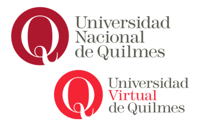 Universidad Nacional de Quilmes - logo y submarca.